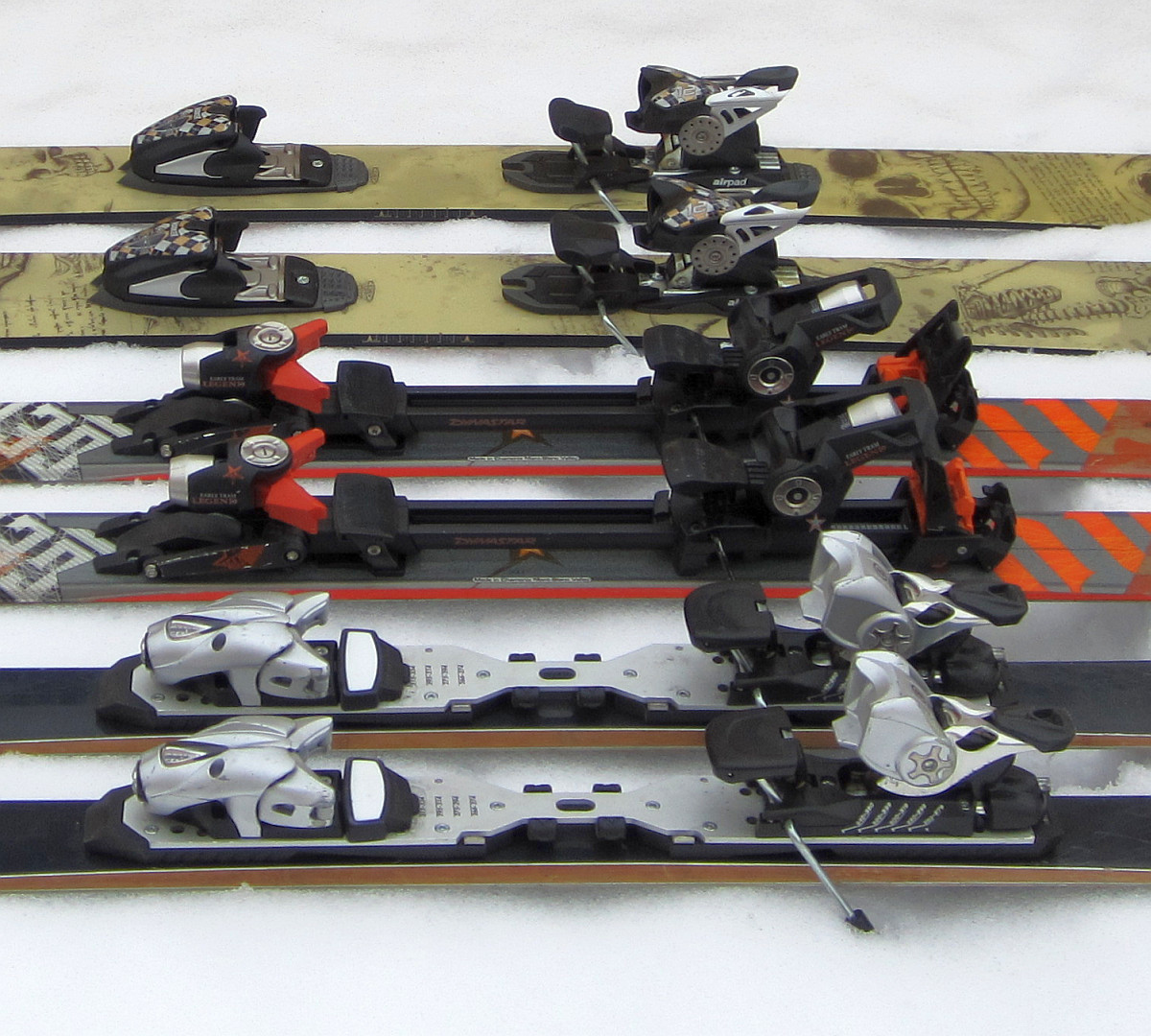 Alpine ski bindings, from top to bottom: Marker Free 12.0 with dampening pads on backcountry skis Dynastar Early Tram/Naxo NX 21 touring binding on allmountain skis Bogner/Vist Speedlock 311 on Speedlock plate on carving skis